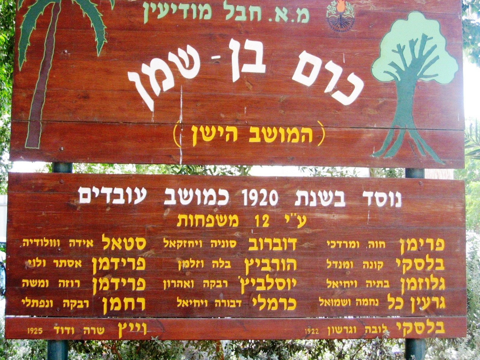 Ben Shemen old